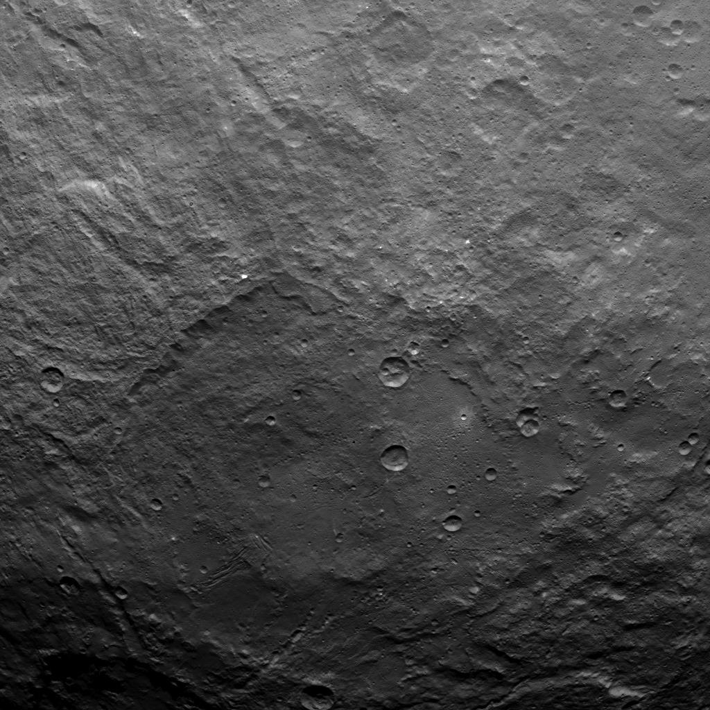 PIA19600: Dawn Survey Orbit Image 31 This image, taken by NASA's Dawn spacecraft, shows dwarf planet Ceres from an altitude of 2,700 miles (4,400 kilometers). The image, with a resolution of 1,400 feet (410 meters) per pixel, was taken on June 25, 2015. Dawn's mission is managed by JPL for NASA's Science Mission Directorate in Washington. Dawn is a project of the directorate's Discovery Program, managed by NASA's Marshall Space Flight Center in Huntsville, Alabama. UCLA is responsible for overall Dawn mission science. Orbital ATK, Inc., in Dulles, Virginia, designed and built the spacecraft. The German Aerospace Center, the Max Planck Institute for Solar System Research, the Italian Space Agency and the Italian National Astrophysical Institute are international partners on the mission team. For a complete list of acknowledgments, For more information about the Dawn mission, visit